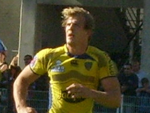 French rugby union player Aurélien Rougerie, october 2009